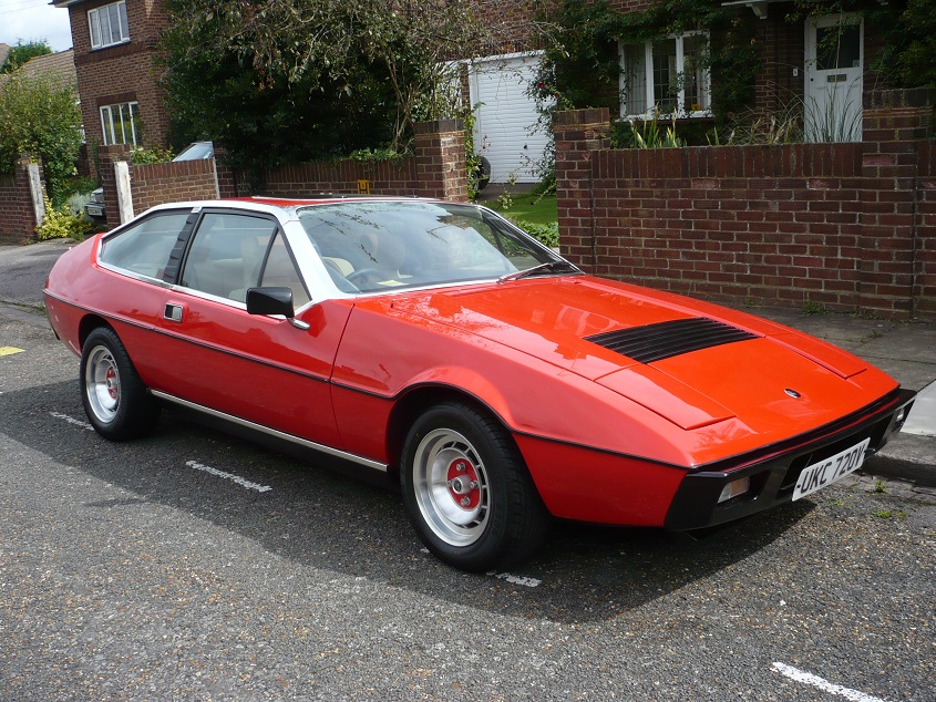 Lotus Éclat S1